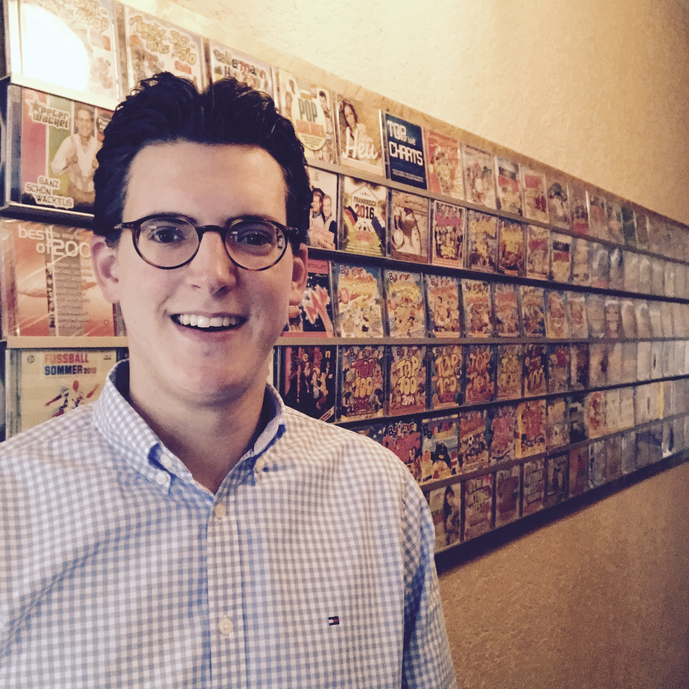 Niklas Hermes 2017